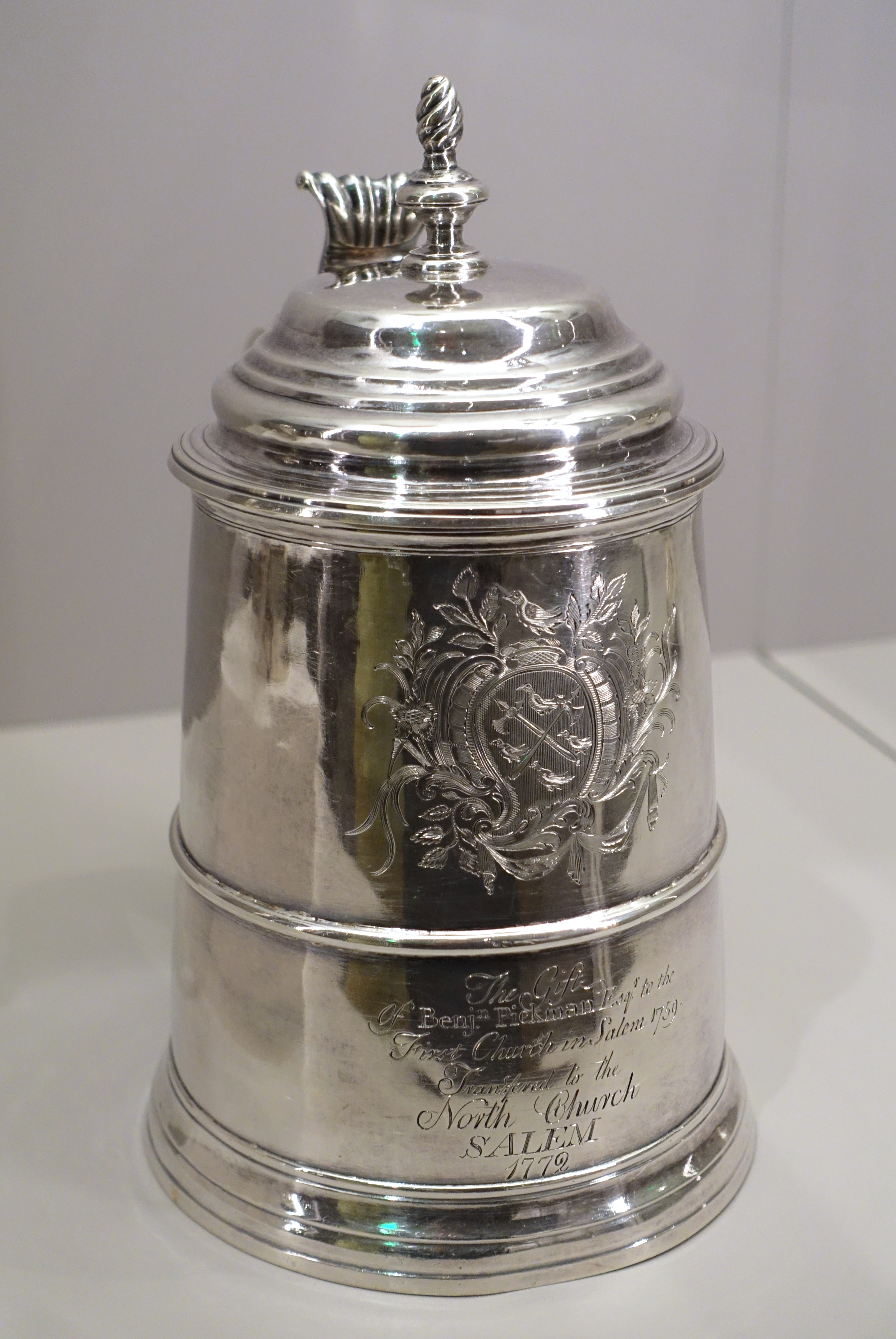 Exhibit in the Fogg Art Museum, Harvard University, Cambridge, Massachusetts, USA. This artwork is in the public domain because the artist died more than 70 years ago.